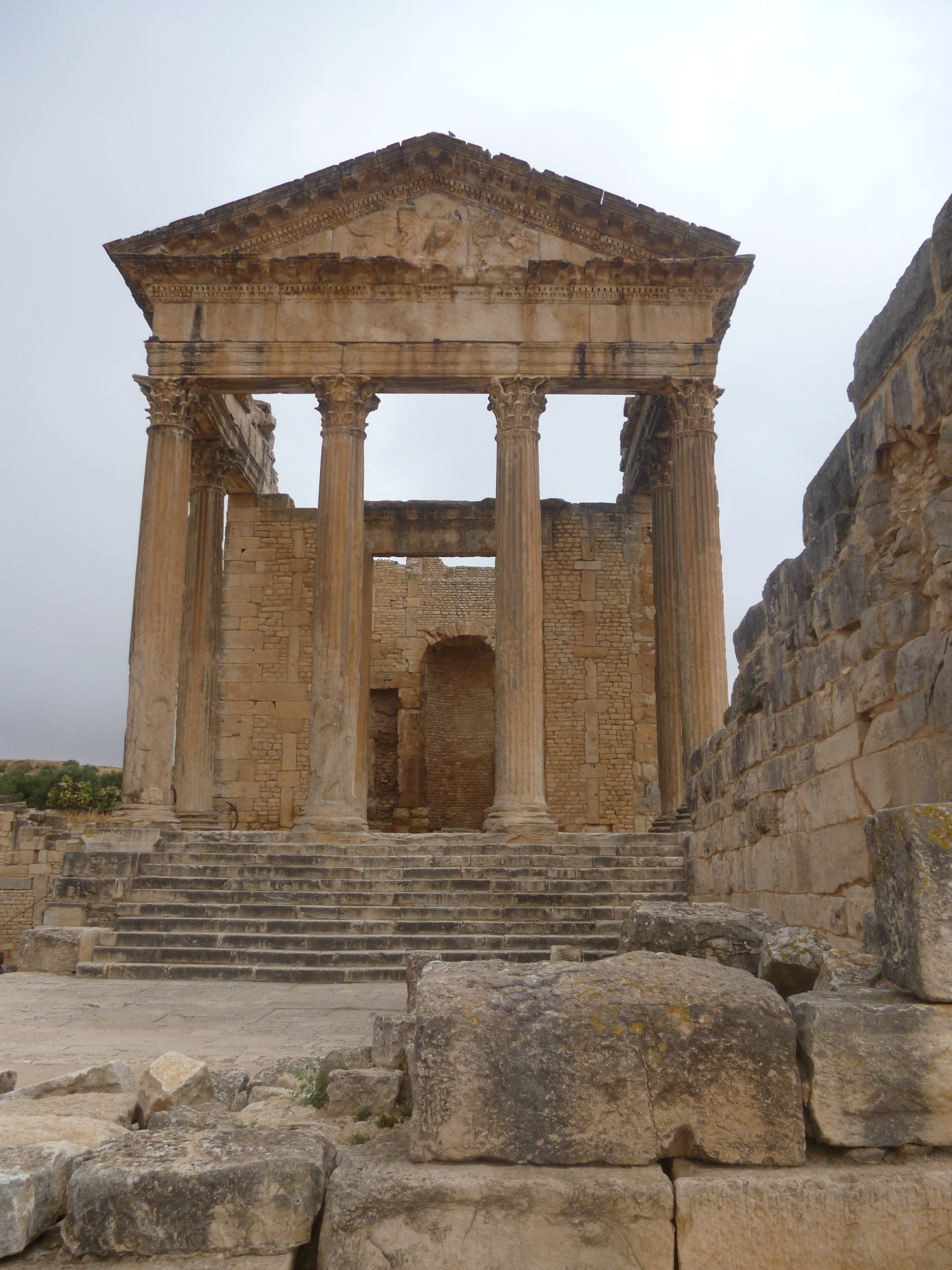 Dougga Thugga (Tunisia)